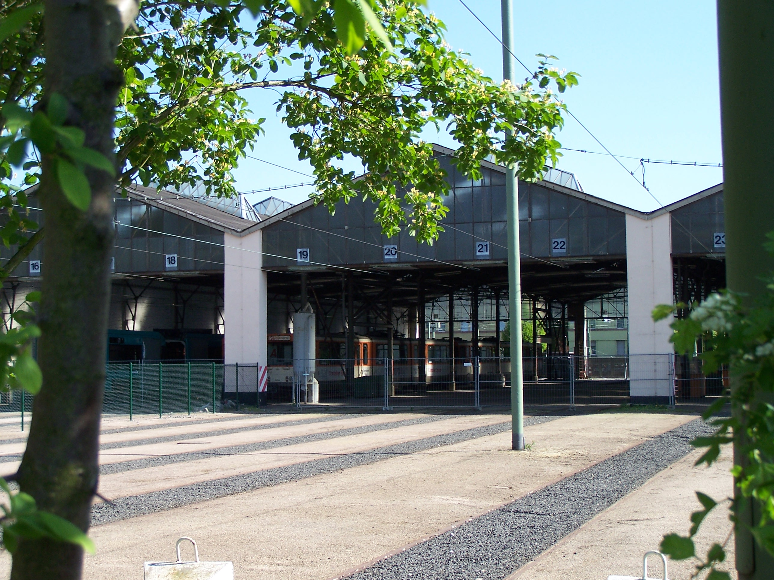 Backside of tram depot Frankfurt-Eckenheim with retired Pt-railcar and parts of crashed R-railcar 017, April 2007